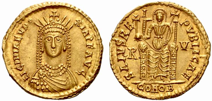 Solidus of Augusta Licinia Eudoxia daughter of the eastern emperor Theodosius II and the wife of the western emperor Valentinian III.